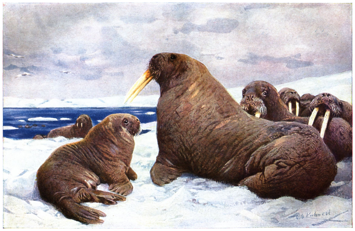 Walrus (Odobenus rosmarus), painting from Friedrich Wilhelm Kuhnert († 1926), Size: 8.0 x 5.2 in² (20.2 x 13.1 cm²)